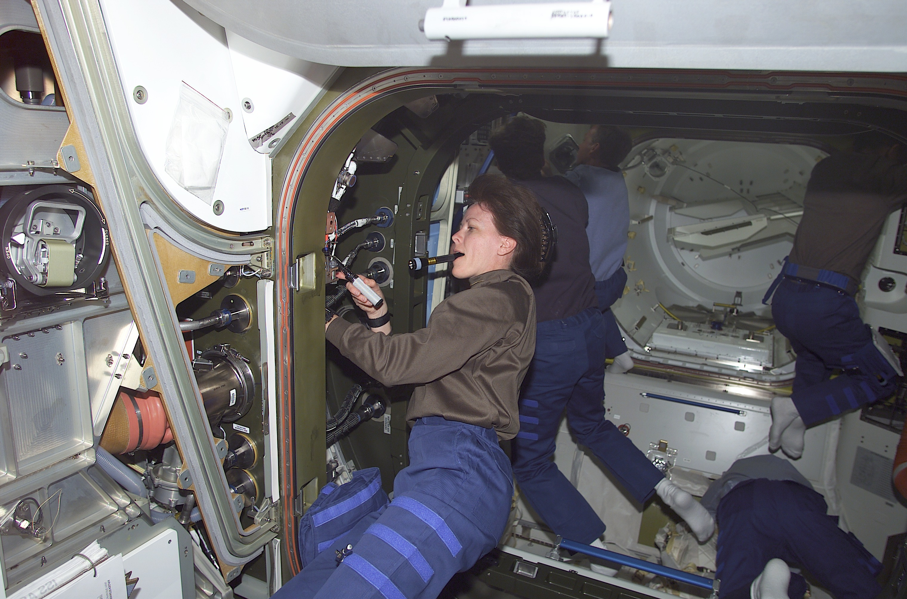 Janet L. Kavandi, STS-104 mission specialist, connects cables and hoses from the newly installed Quest Airlock to Unity Node 1. Other STS-104 and Expedition Two crewmembers are visible in the background working in the Airlock.